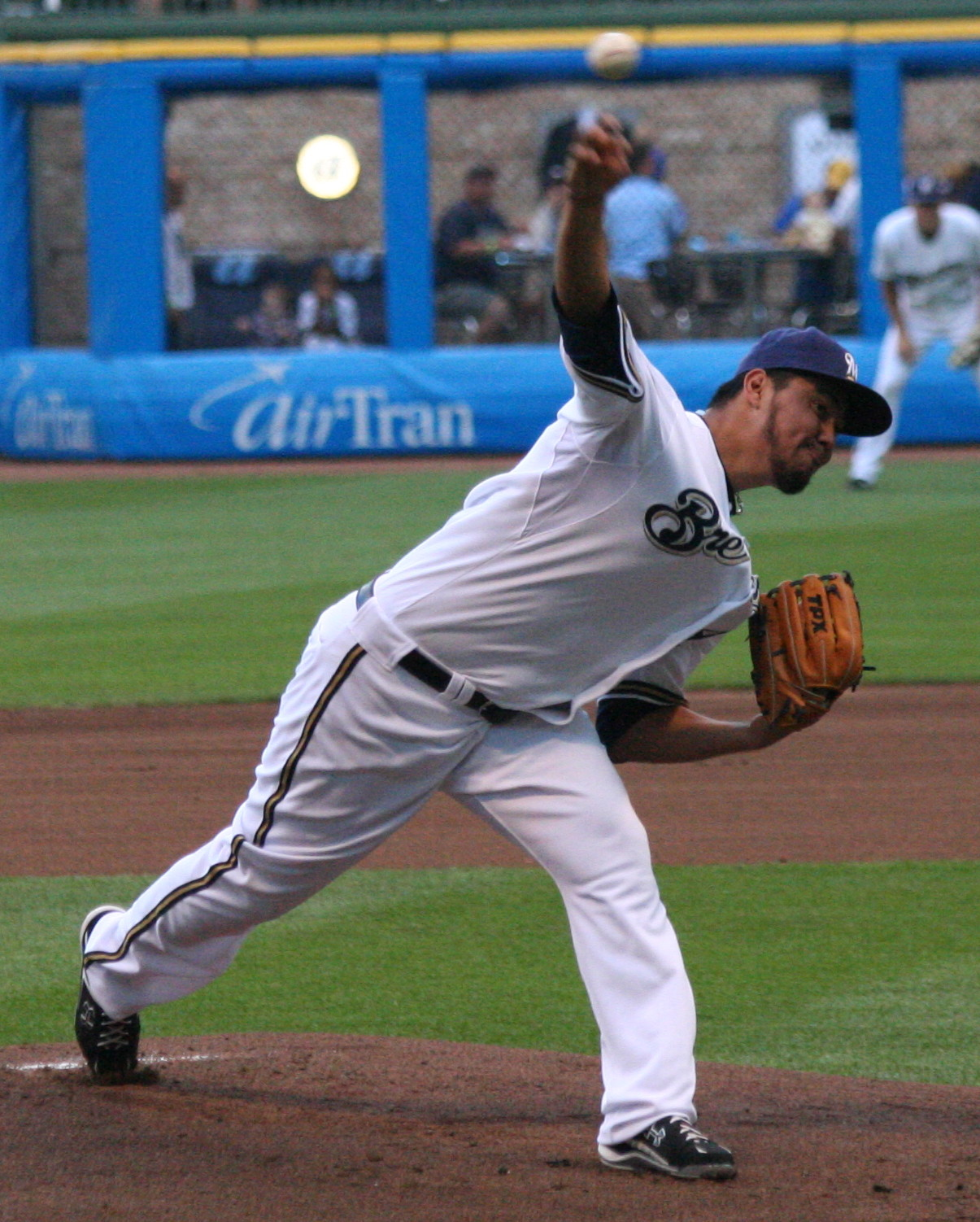 Yovani Gallardo pitches a game at Miller Park.